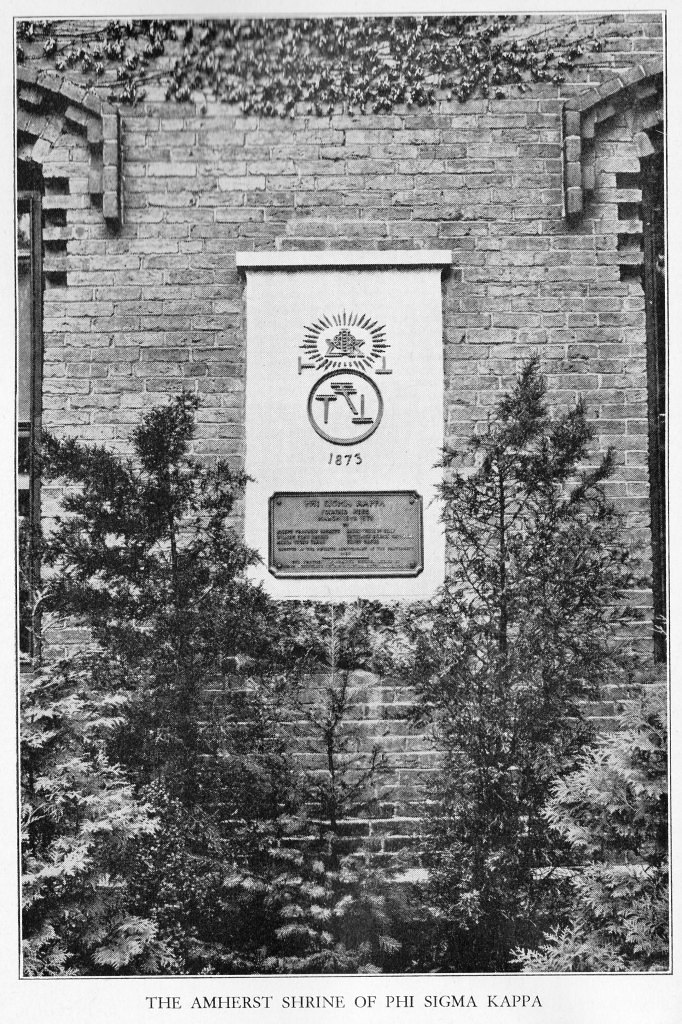 This photo was published by Phi Sigma Kappa fraternity in its quarterly magazine for members, and reproduced here in low resolution for Wikipedia at Phi Sigma Kappa and other usage. The Shrine at UMass, Amherst, MA, May 1945, from The Signet (sm), vol XXXVII no 3 p 122.jpg